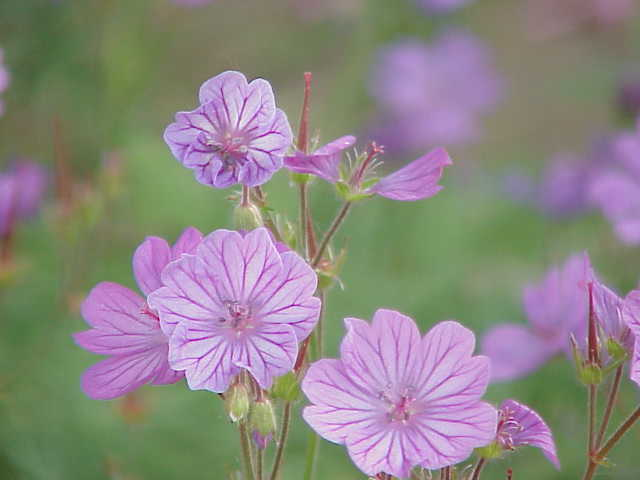 Species: Geranium tuberosum Family: Geraniaceae Image No. 1